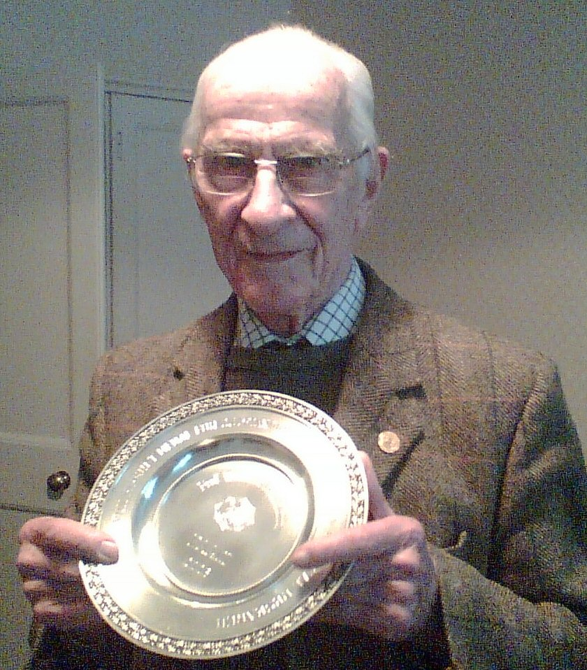 Dr Bill Frankland was awarded the 2006 Clemens von Pirquet Medal for Outstanding Contributions in Clinical Research.